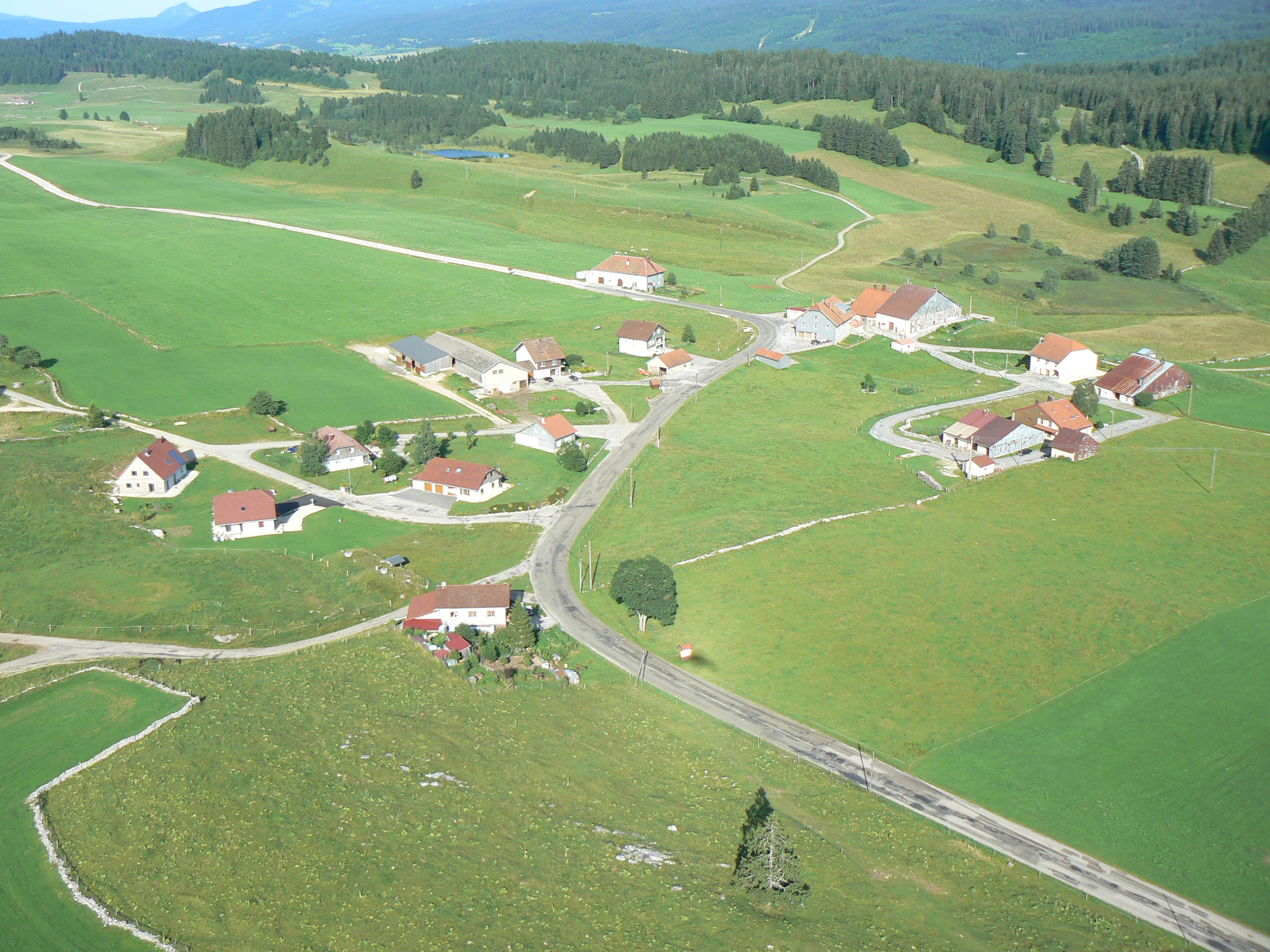 Village de Reculfoz vue aérien